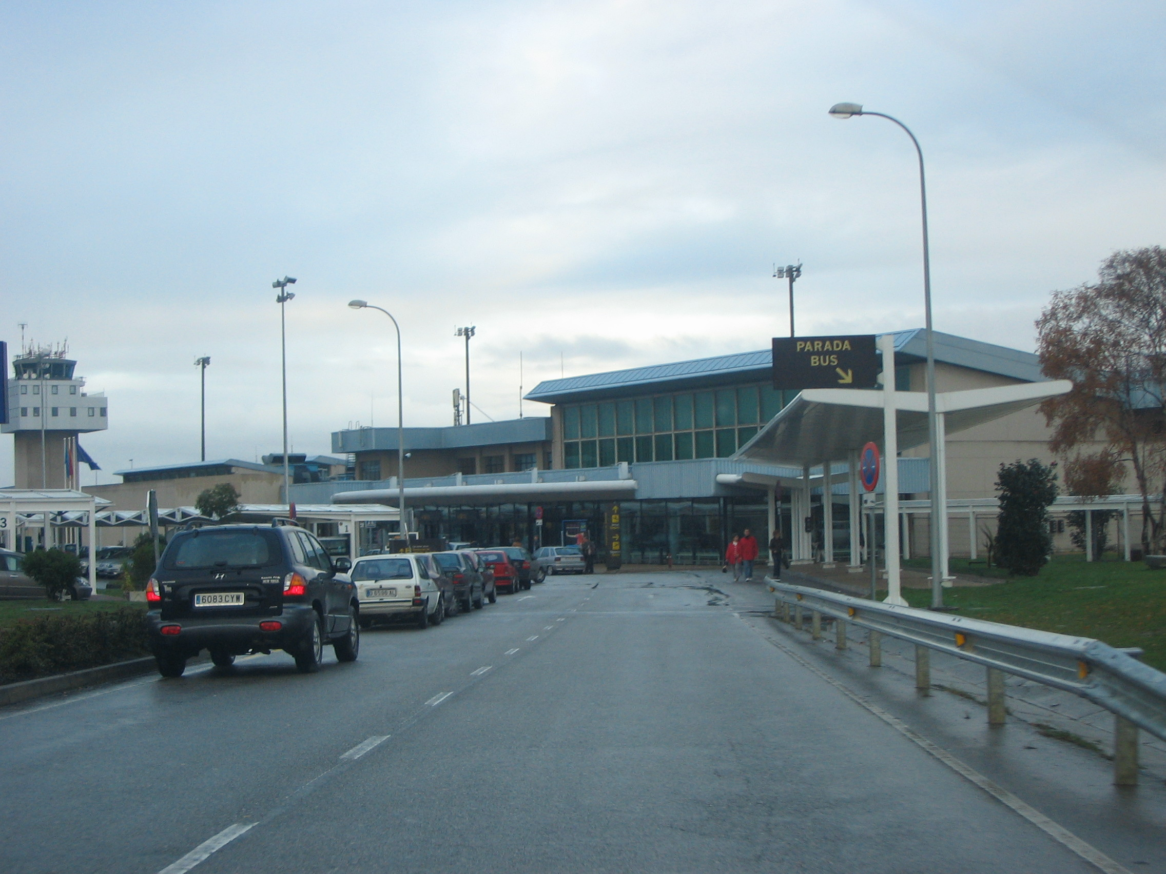 Description: Aeropuerto de Asturias; Airport of Asturies. Date: 16 de dicimebre de 2005; december 16th, 2005 Author: Usuario Rodrigouf; User Rodrigouf